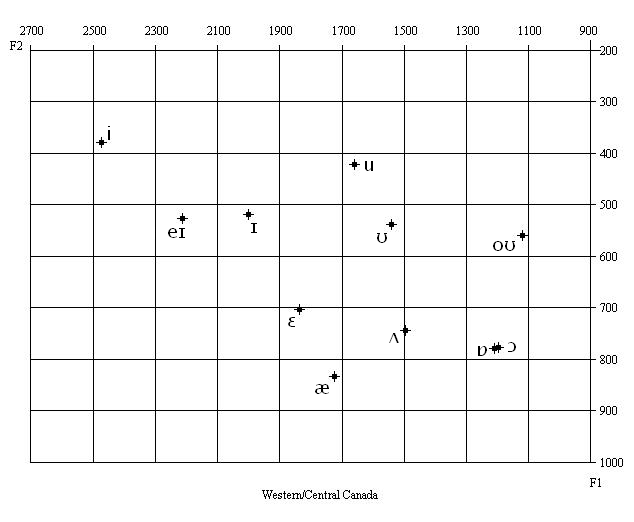 Based on Labov et al., "The Atlas of North American English"; averaged F1/F2 means for speakers from Western and Central Canada